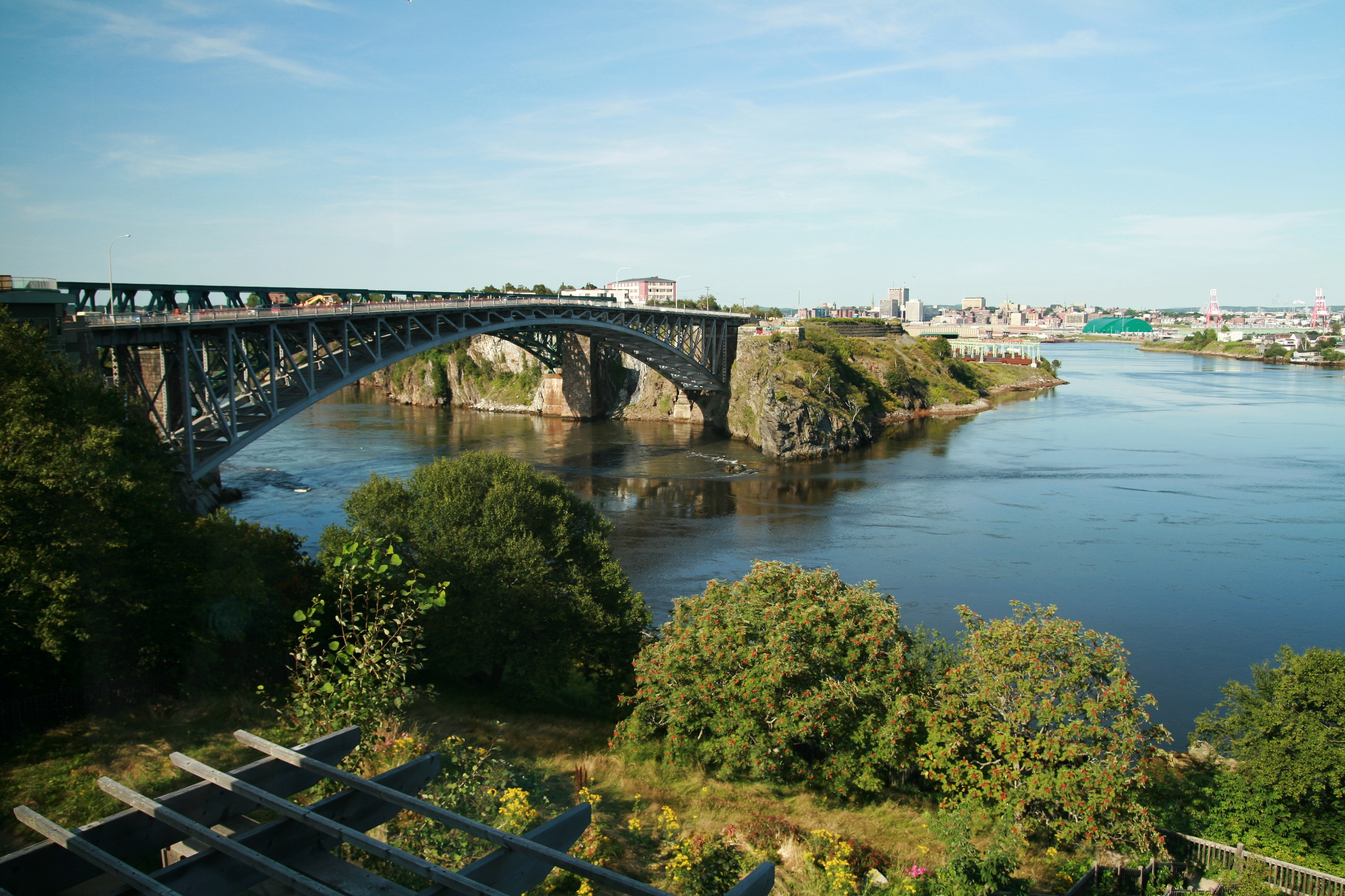 Reversing Falls with water flowing upriver.